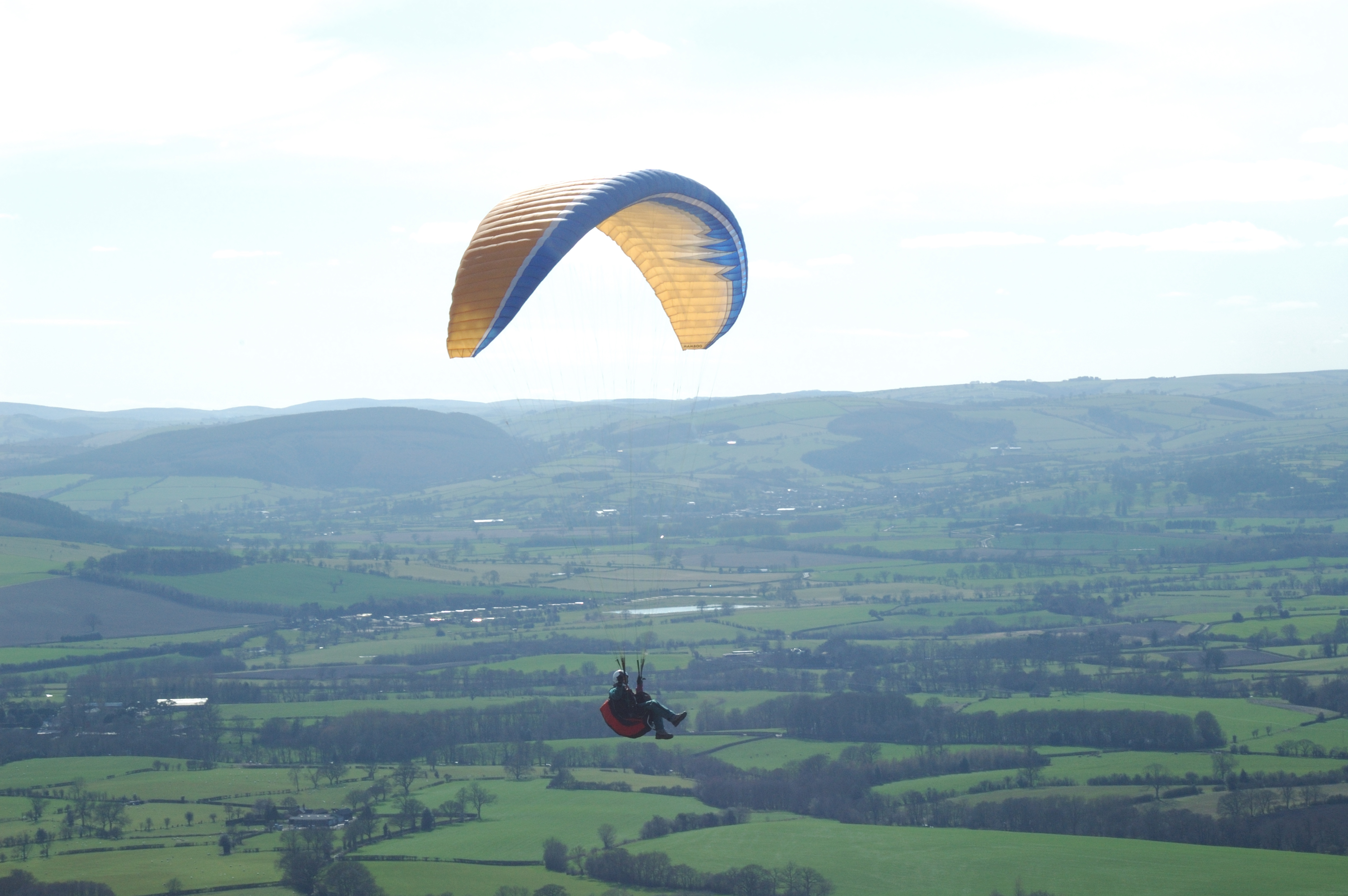 Paraglider: Nova Mamboo